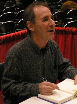 Harry Shearer